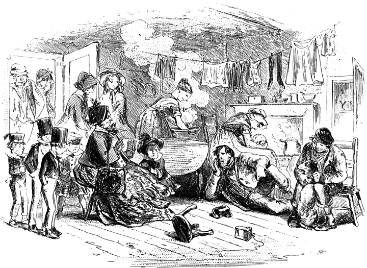 The Visit to the Brickmaker's by "Phiz" (Hablot Knight Browne) for Bleak House, p. 73. 3 3/4 x 5 1/4 inches.